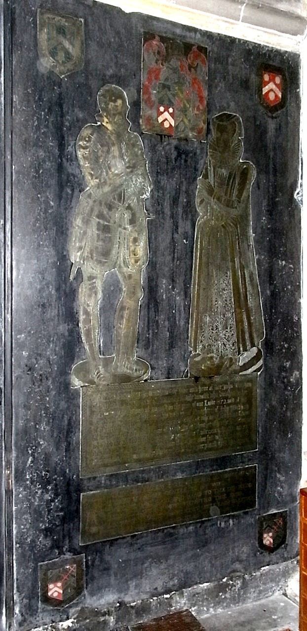 Almost life-size monumental brasses in St Decuman's Church, watchet, Somerset, set into slabs of Portland marble, to Sir John Wyndham (d.1572), of Orchard Wyndham and his wife Florence Wadham (1538–1597), a sister and co-heiress of Nicholas Wadham (1531-1609) of Merryfield, Ilton, in Somerset and of Edge, Branscombe in Devon, a posthumous co-founder, with his widow Dorothy Petre (d.1618), of Wadham College, Oxford. Erected by their son and heir Sir John Wyndham (1558–1645), who erected an almost identical pair in the Wadham Chapel, St Mary's Church, Ilminster (considered the finest of their style in England) to his uncle Nicholas Wadham and the latter's wife, Dorothy Petre, co-founders of Wadham College, Oxford. Sir John Wyndham (1558–1645) was one of the heirs to the large fortune of Nicholas Wadham and helped to put into effect his plans for the founding of Wadham College. Sir John Wyndham (1558–1645) also erected similar brasses, but much smaller, in St Margaret's Church, Felbrigg, Norfolk, to Thomas Windham (d.1599) (in the nave) and to Thomas's sister Jane Coningsby (d.1608) (in the chancel). He inherited Felbrigg Hall from his cousin Thomas Windham (d.1599). Source: Ketton-Cremer, Robert Wyndham, Felbrigg, the Story of a House, London, 1962, p.32)